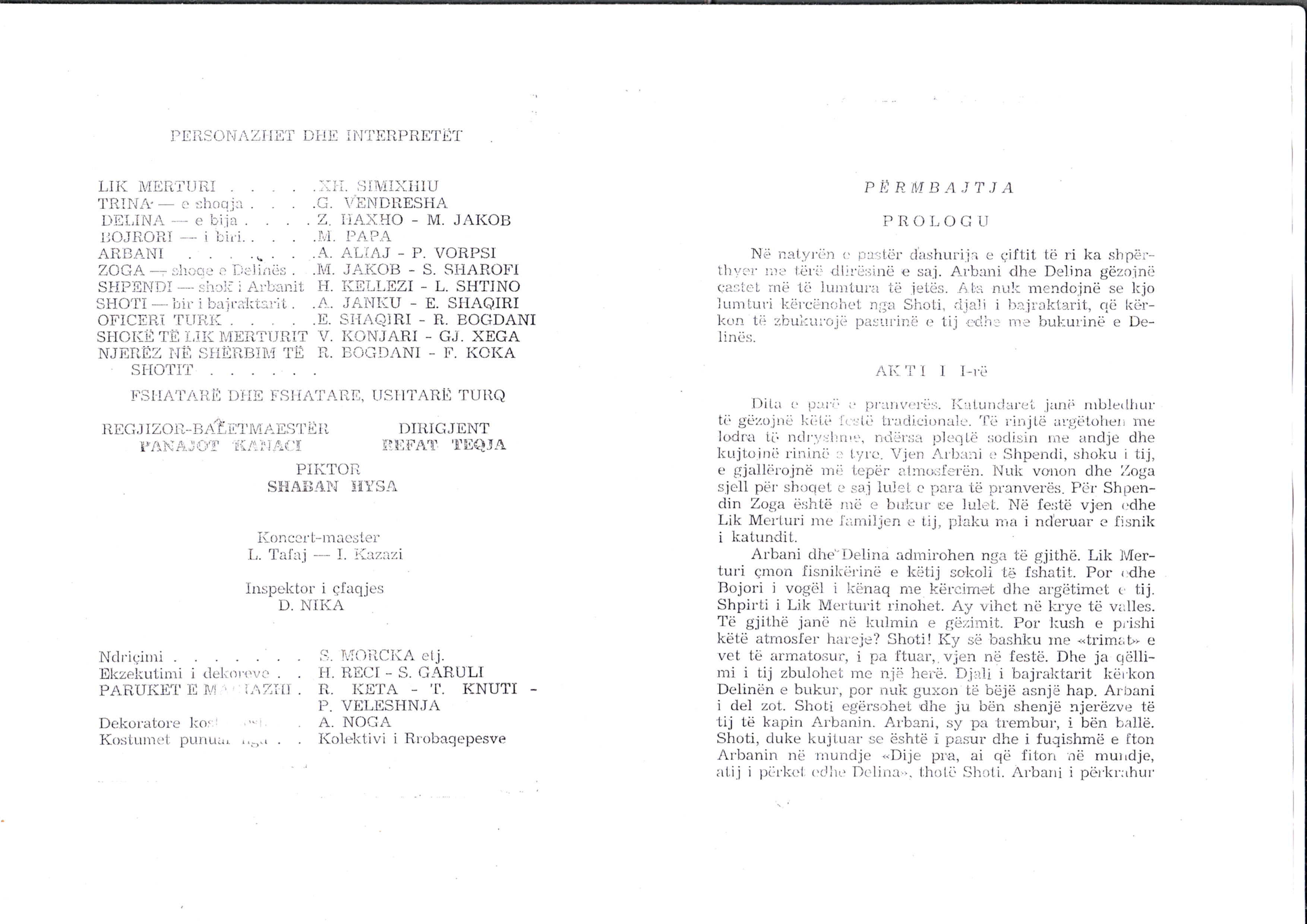 delina